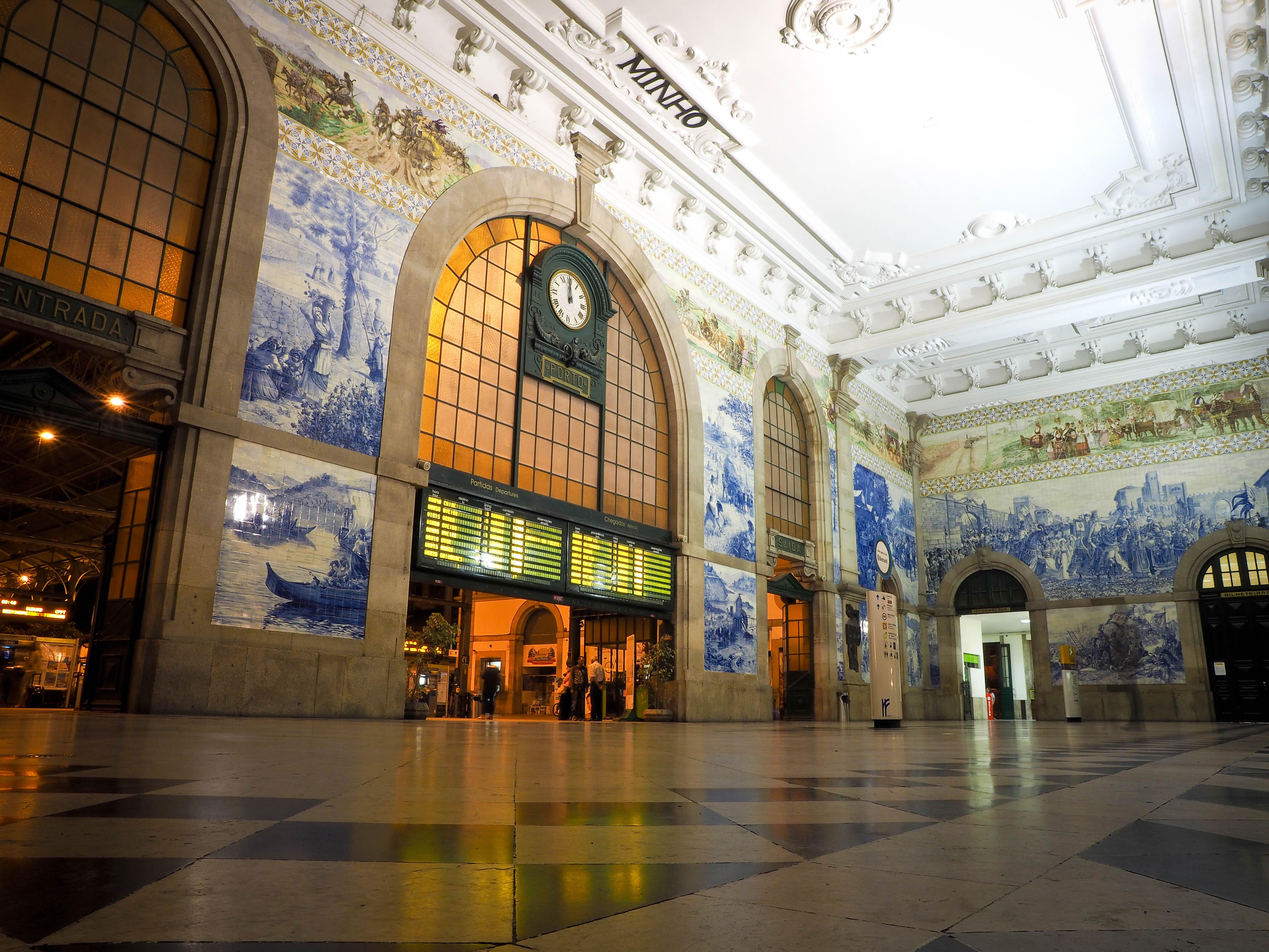 Great hall of Porto São Bento train station, Porto, Portugal